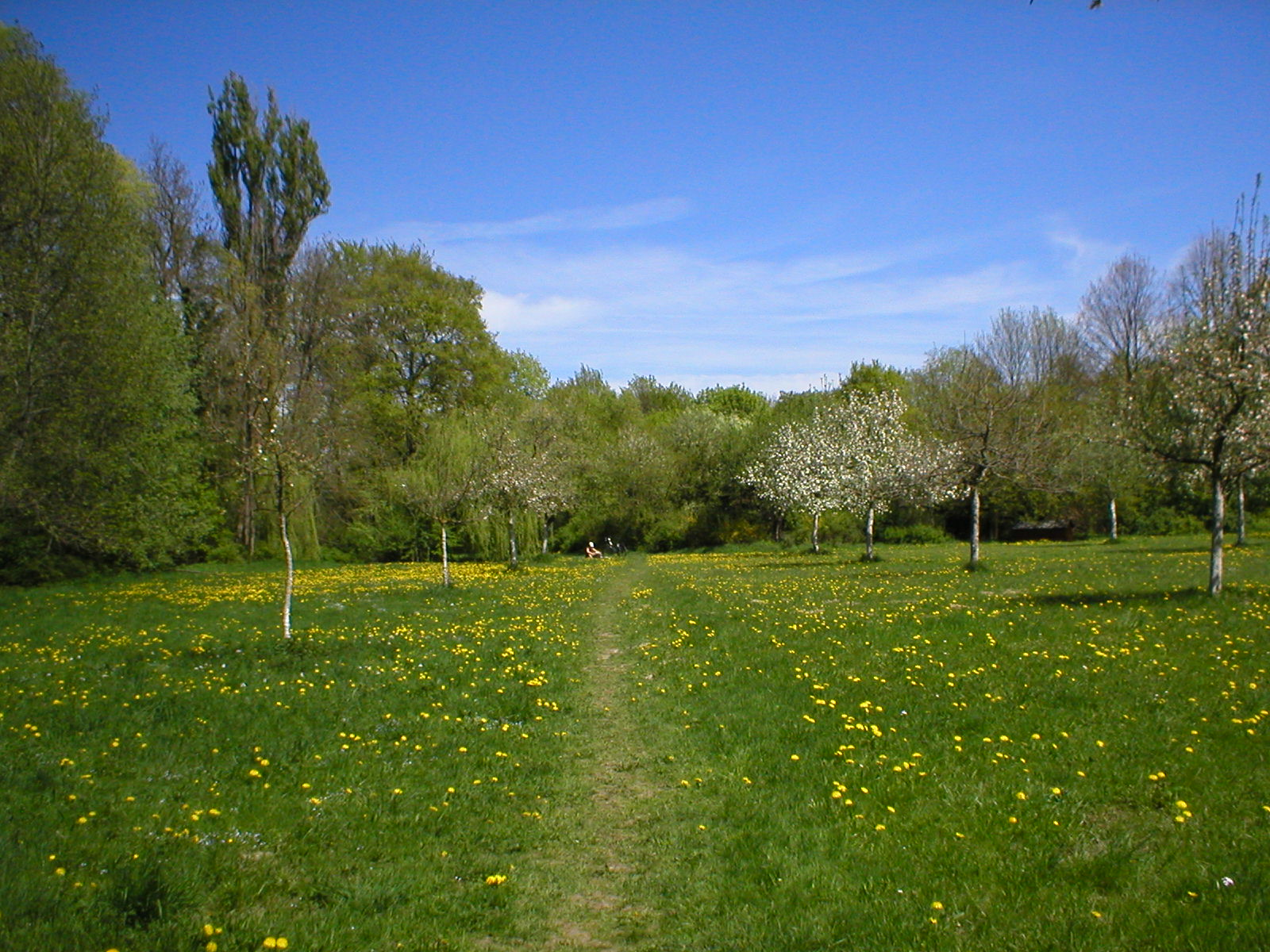 Hirschau, Munich, Englischer Garten, Munich, Germany